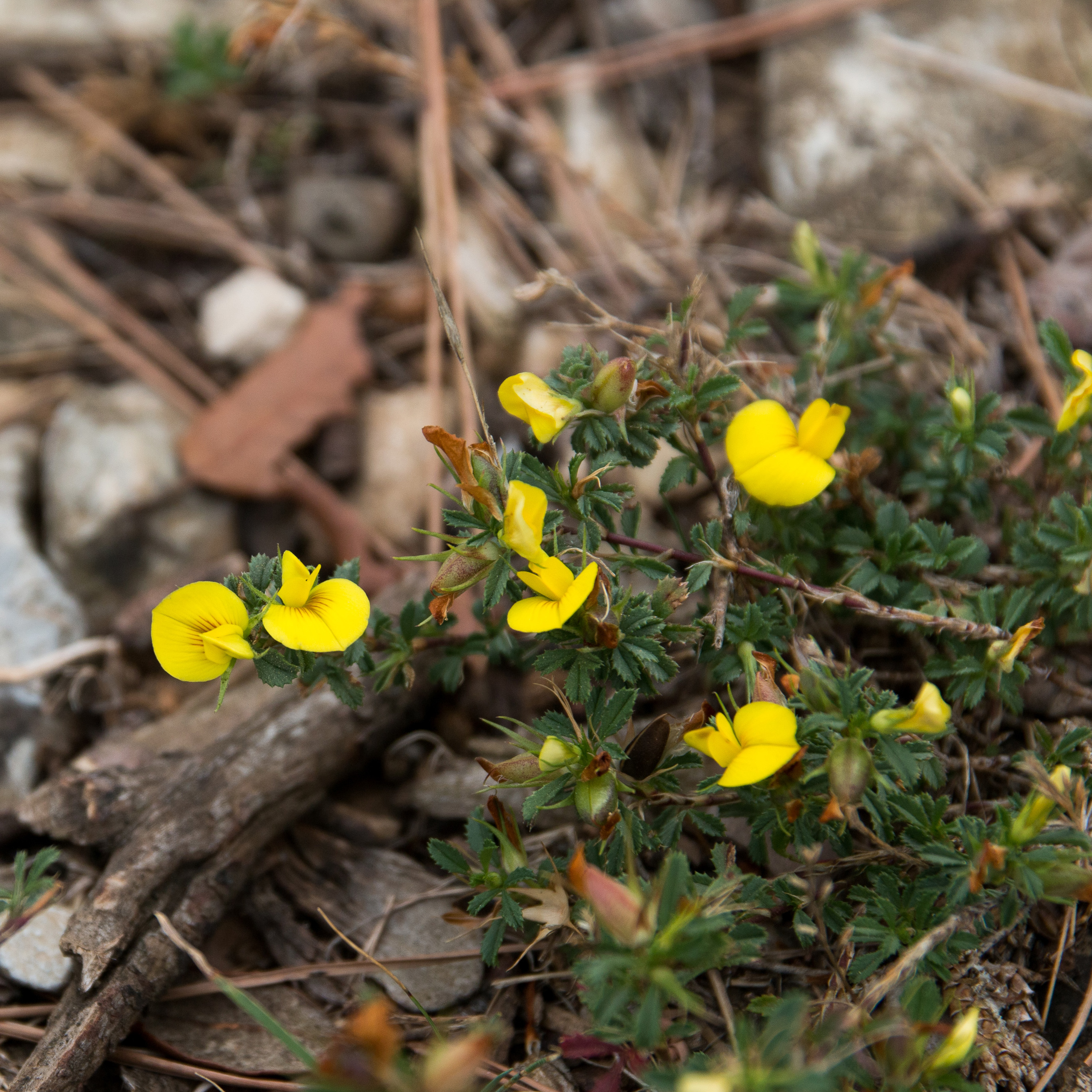 Flowers of Restharrows